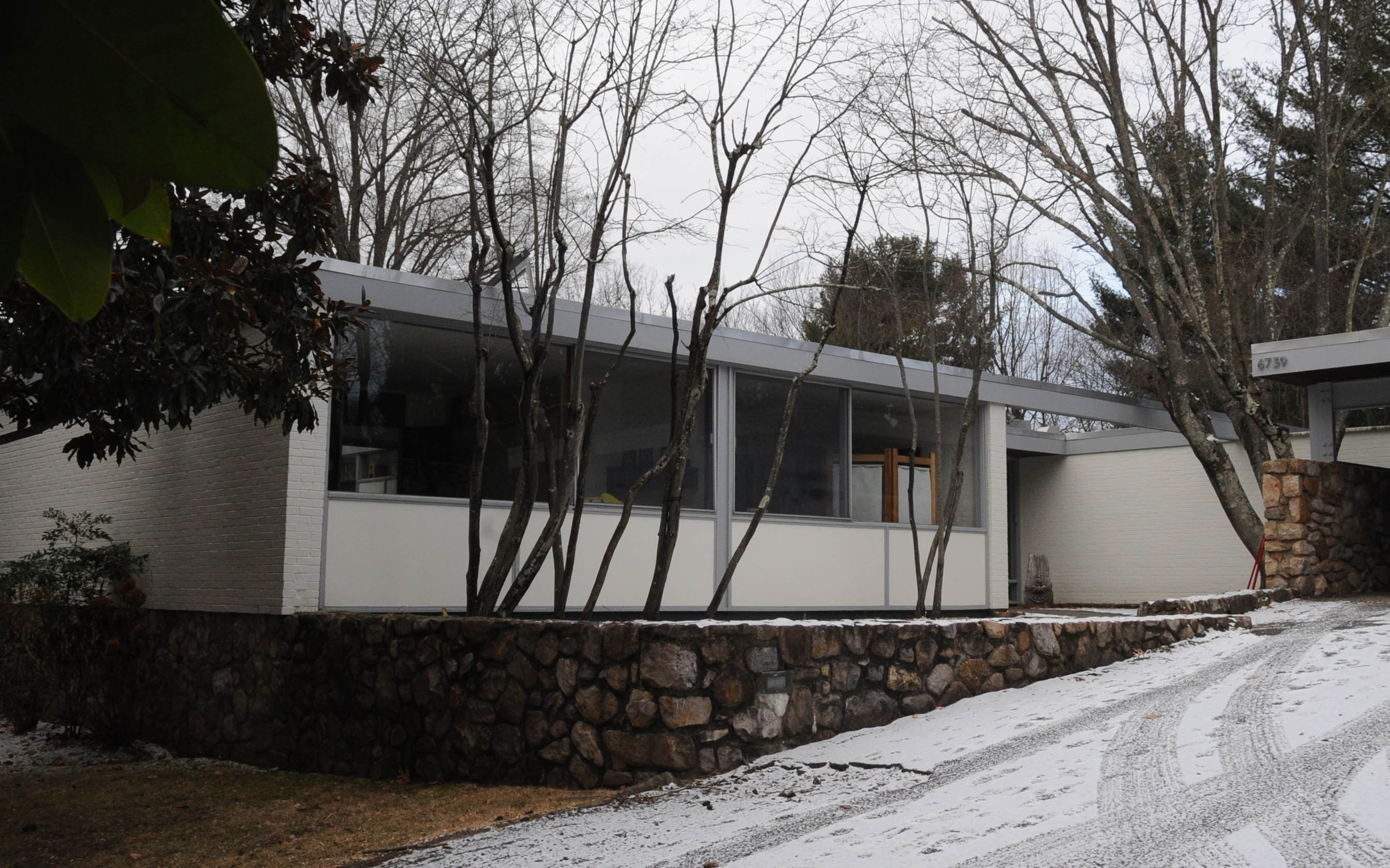 1958 INTERNATIONAL STYLE BY NOTED ARCHITECT MARCEL BREUER; IT FEATURES BRICK PAINTED WHITE AND LARGE PLATE GLASS WINDOWS AND SLIDING GLASS DOORS